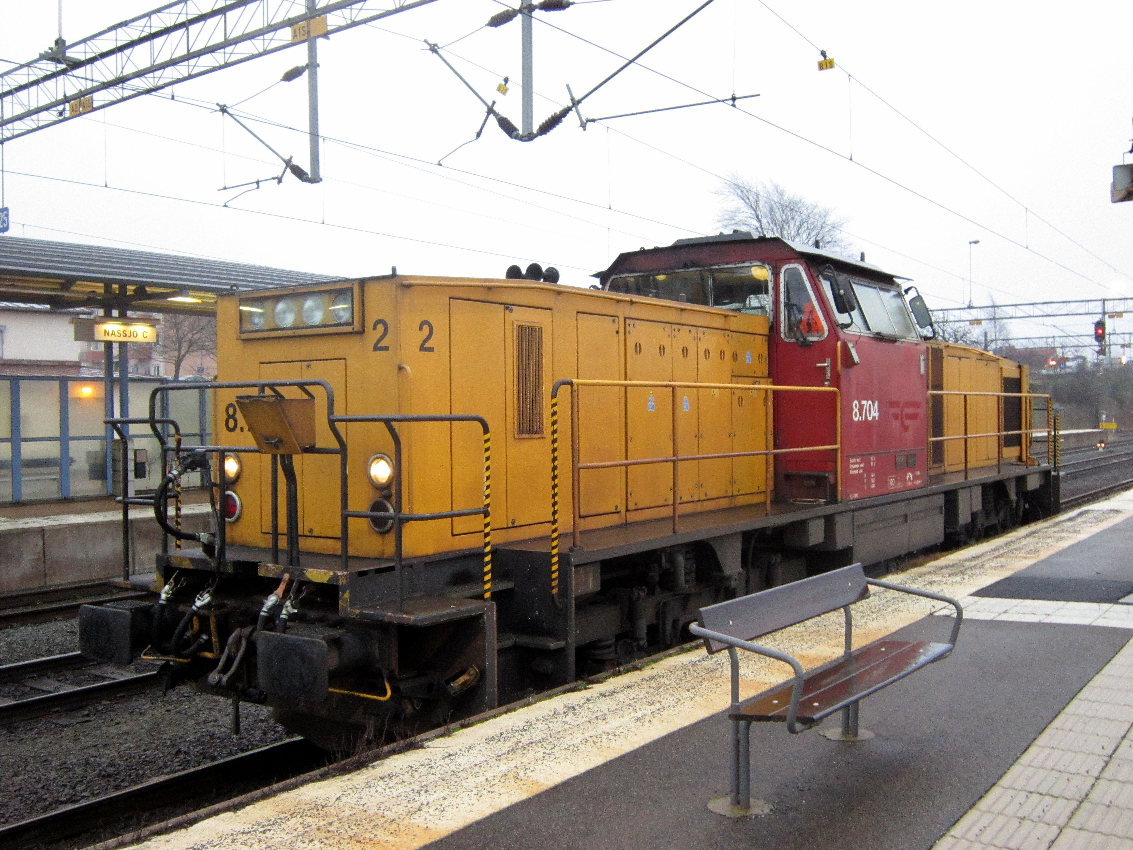 NSB Di 8 at Nässjö C